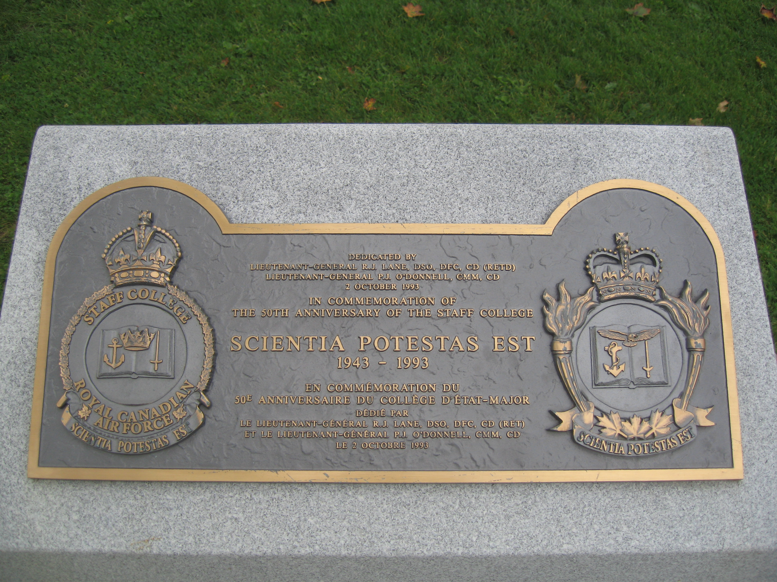 50th anniversary commemoration memorial of the Canadian Forces College, 215 Yonge Boulevard, Toronto, Ontario, Canada.